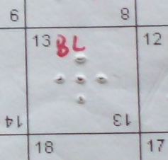 Close-up of orienteering control card marked using a needle punch.